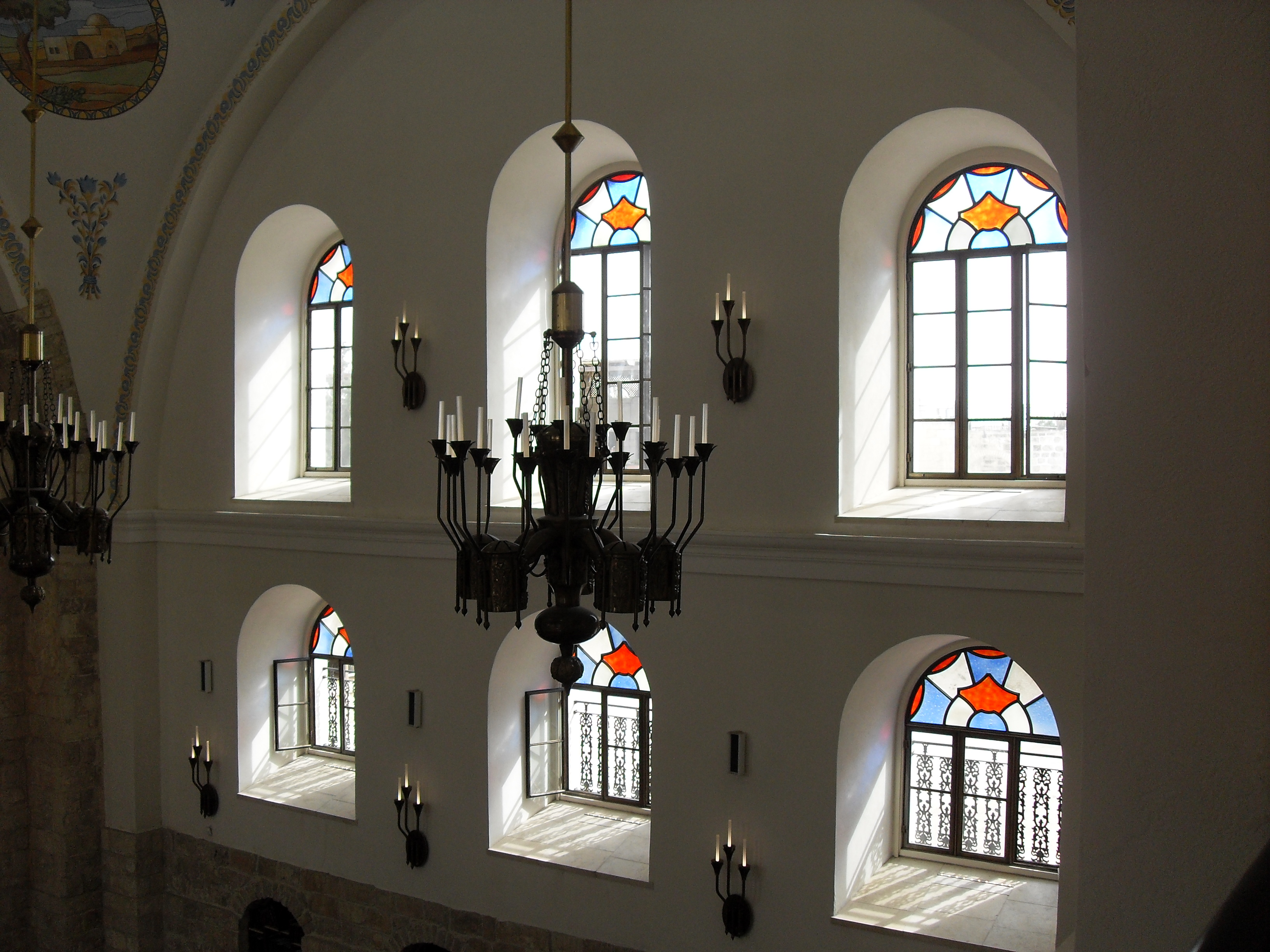 Old Jerusalem Hurva Synagogue windows